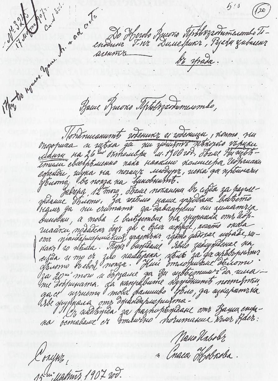 Letter from Pano Ilyov and Spasa Noveva to Nikolay Demerik, 15 March 1907